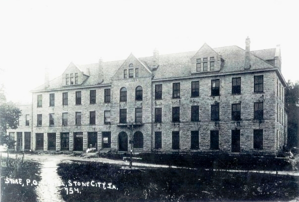 Columbia Hall Stone City, Iowa